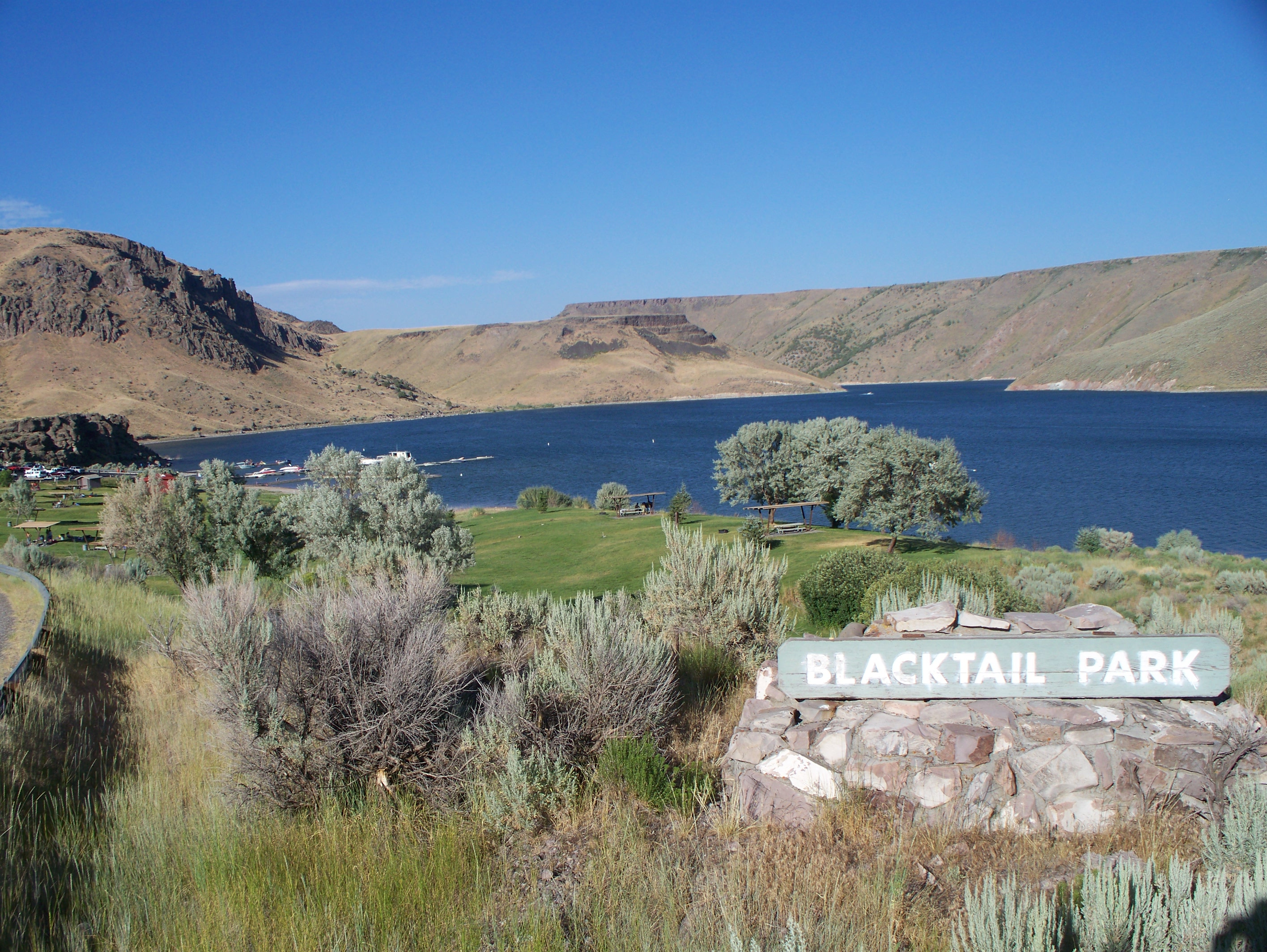 Blacktail Park is on the shore of Ririe Reservoir. It has boating access, restrooms, and picnic tables. It has no potable water.